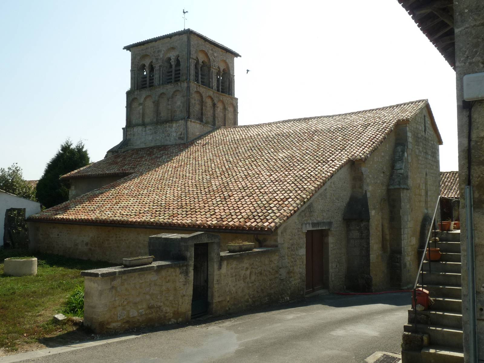 church